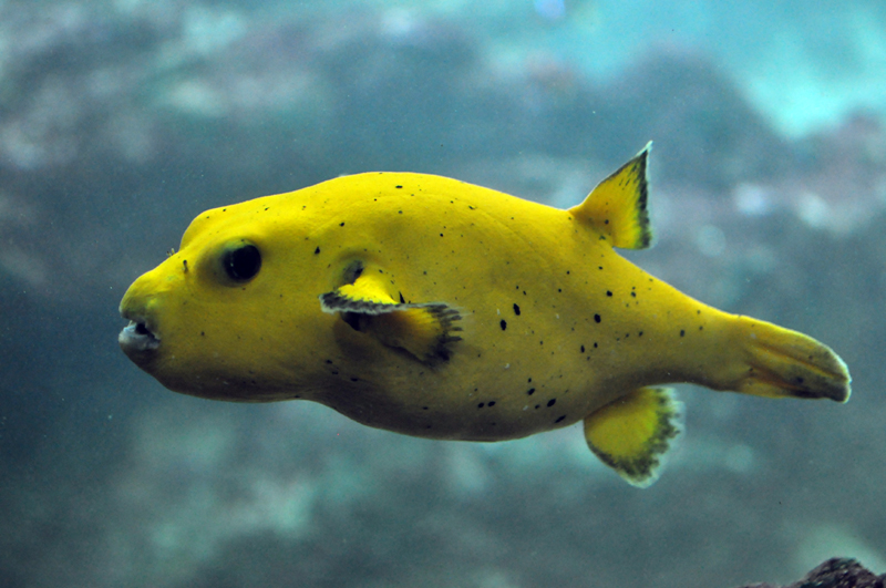 Arothron nigropunctatus